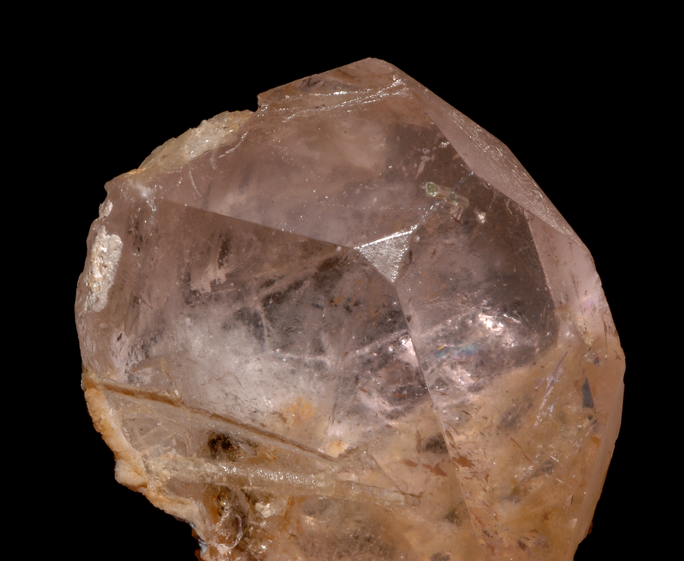 beryl var. morganite : Urucum mine (Tim mine ; Córrego do Urucum pegmatite), Galiléia, Doce valley, Minas Gerais, Brazil